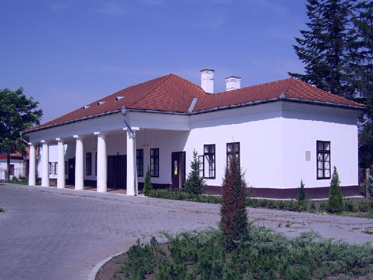 The Halász Bálint Mansion, Dabas, Hungary